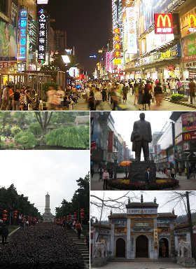 Montage of various Changsha images